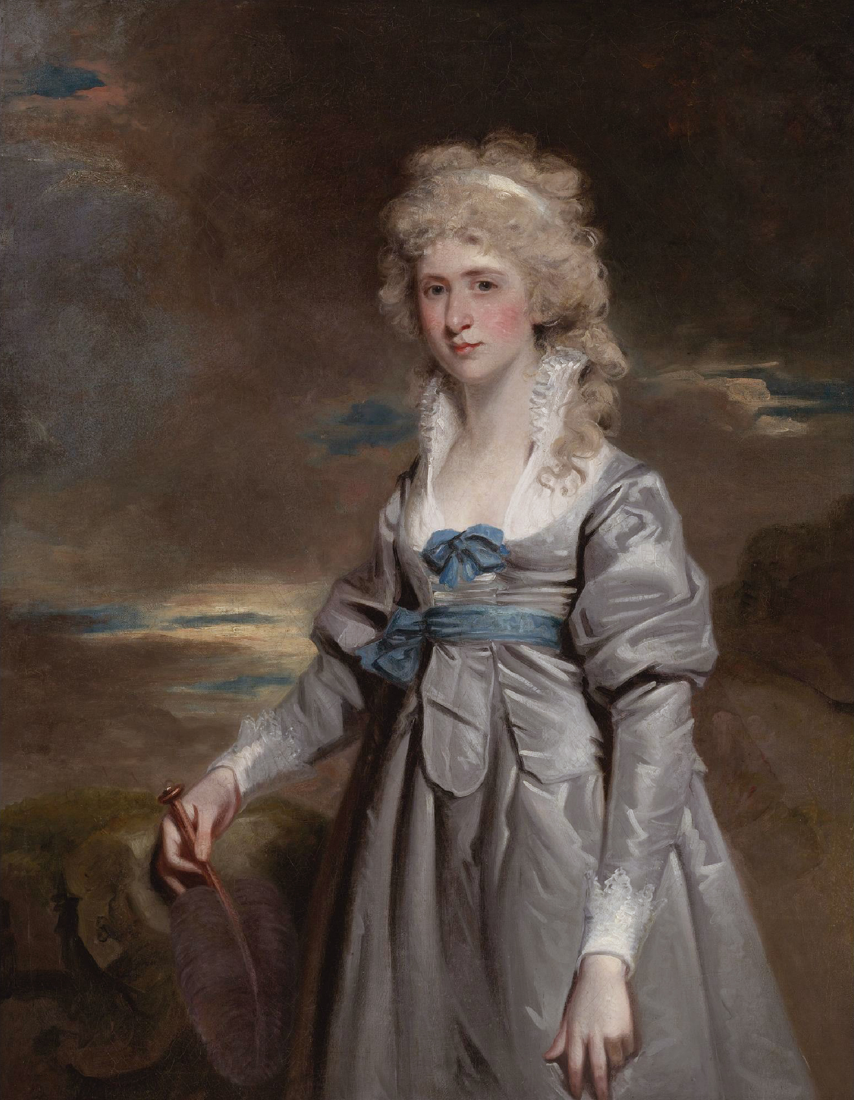 Portrait of Charlotte Walsingham, Lady Fitzgerald (1769-1831)